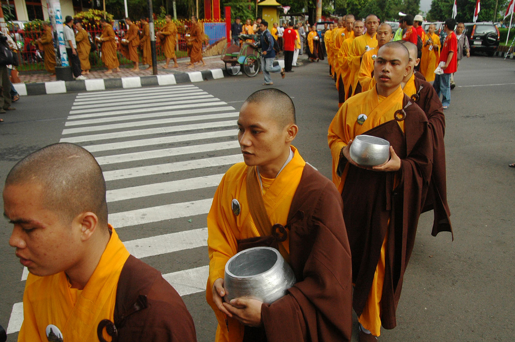 Monks doing Pindapatta before Vessak Day 2010 in Magelang, Central Java, Indonesia (May, 26, 2010)